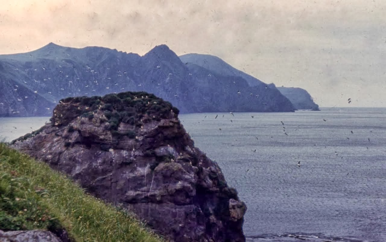 Shikotan